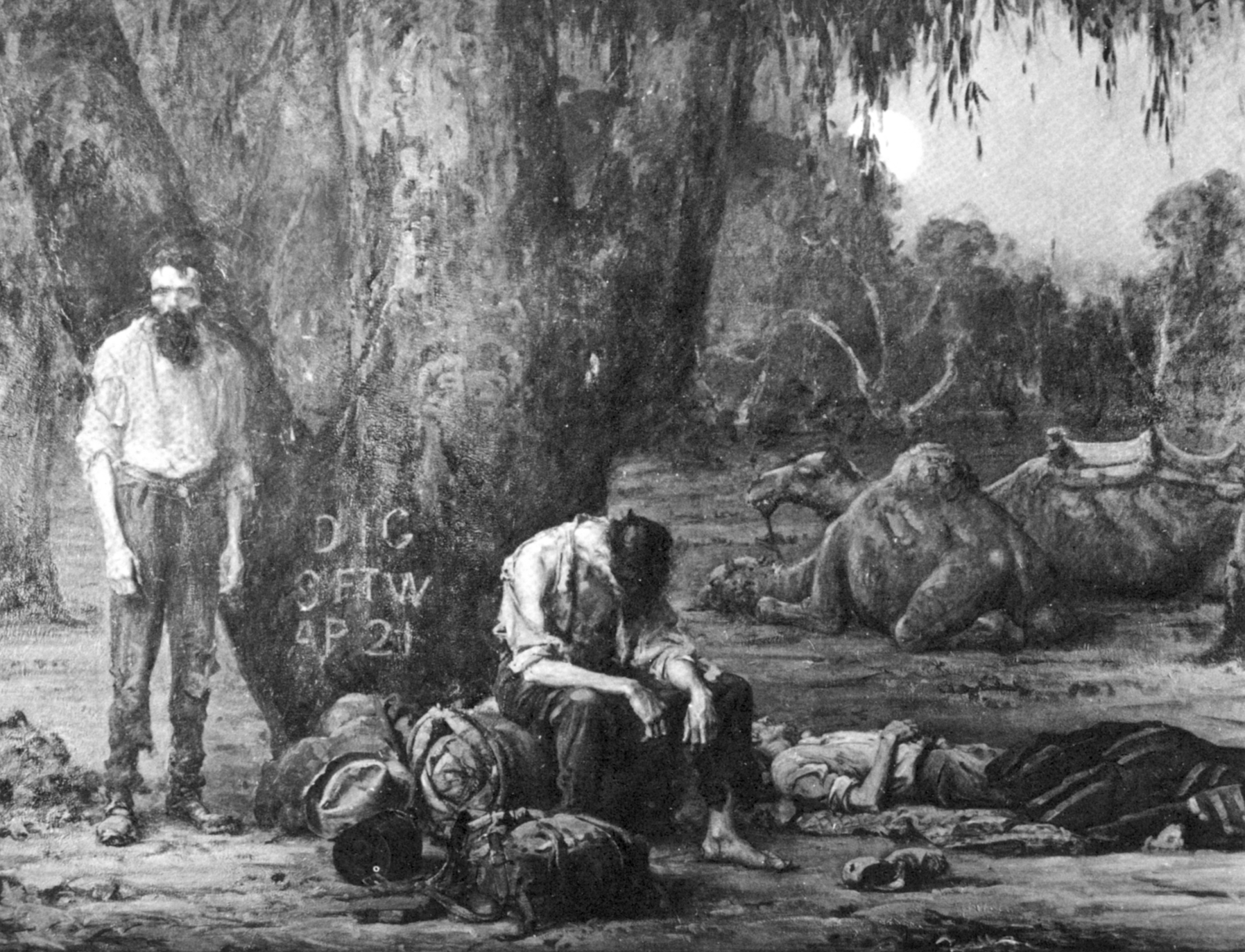 Burke and wills and King arriving at the Dig sign at coopers creek. Painting.